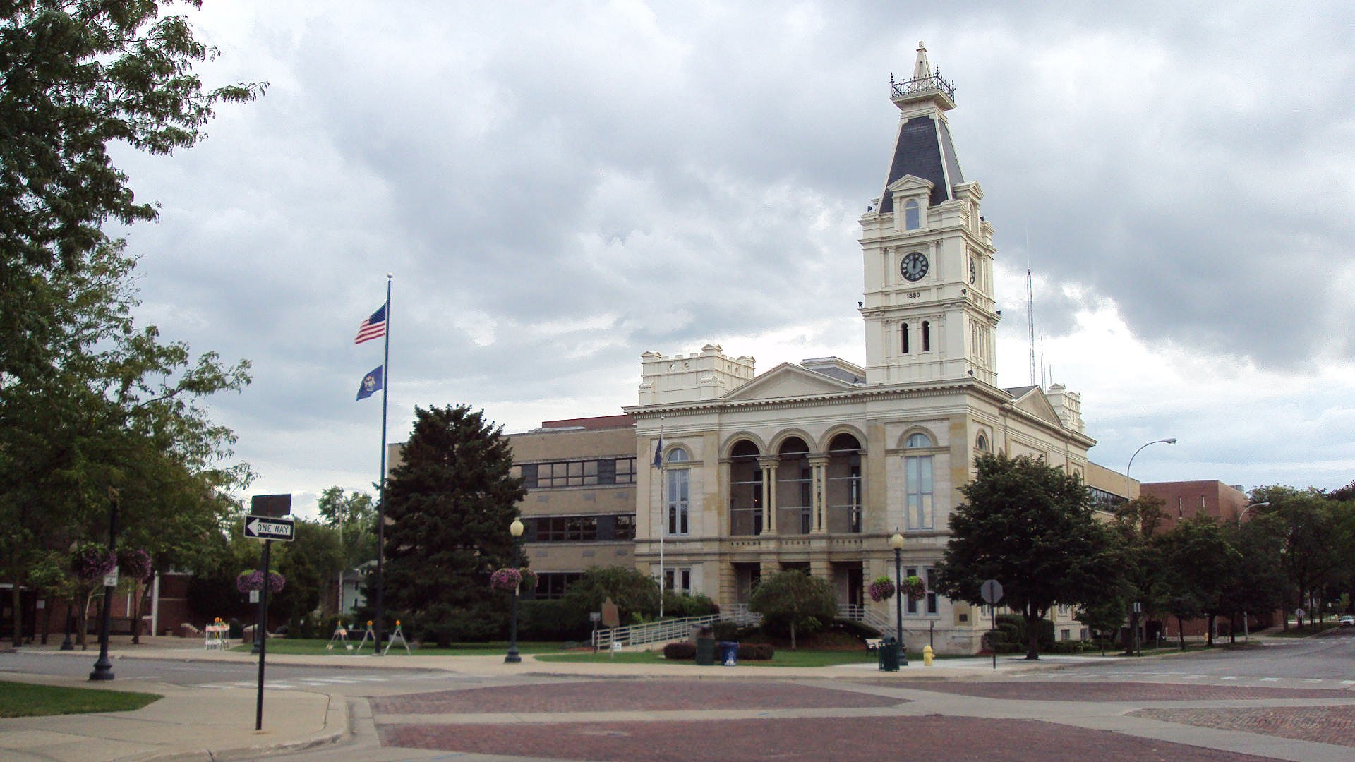 Front of the Monroe County Courthouse, located at 106 E. First Street in downtown Monroe, Michigan, United States.